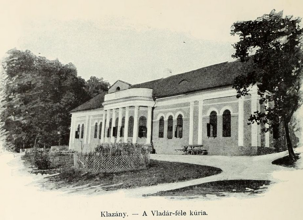 Klazány, mansion